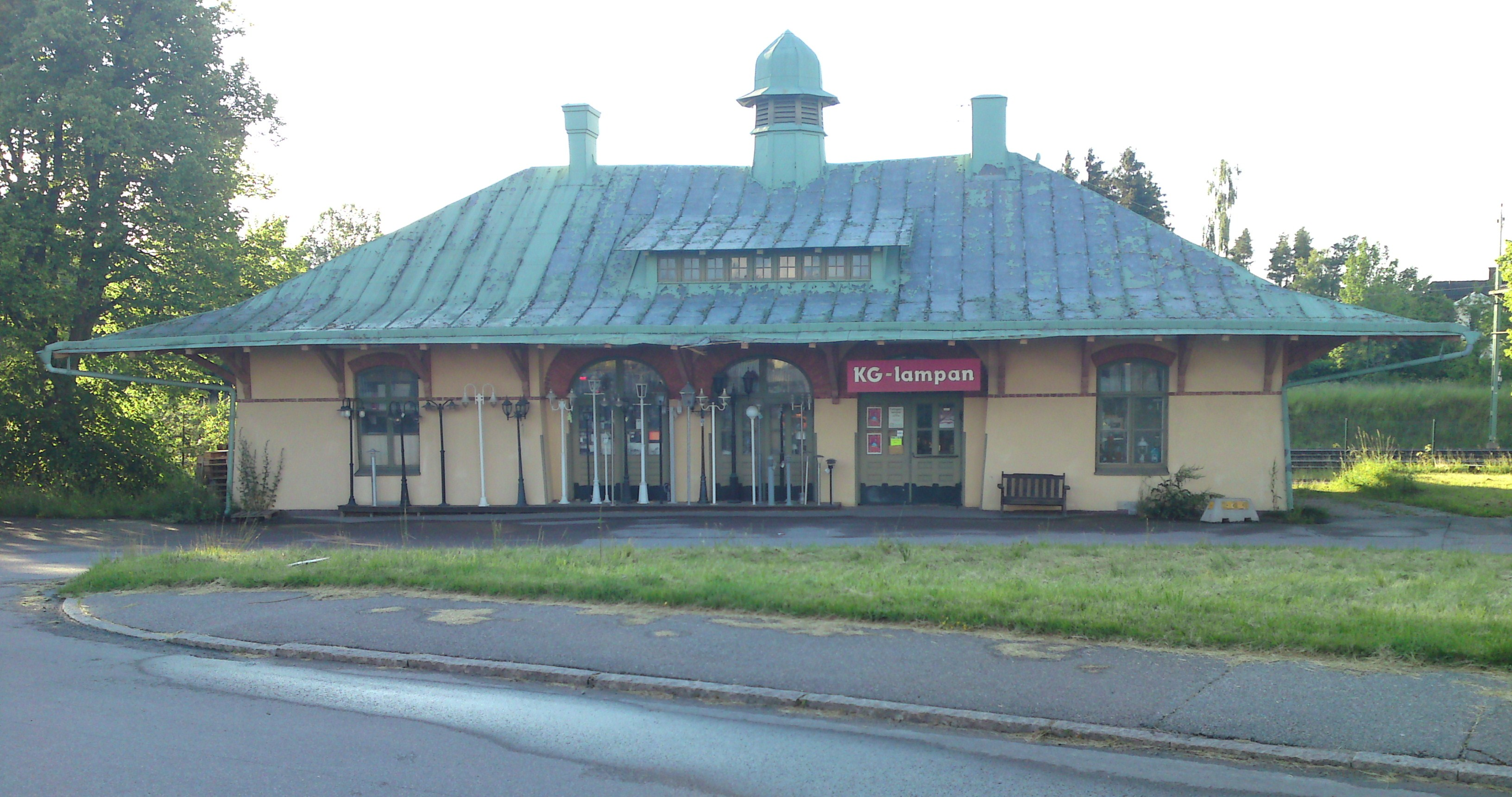 Malmslätt's station, Östergötland, Sweden